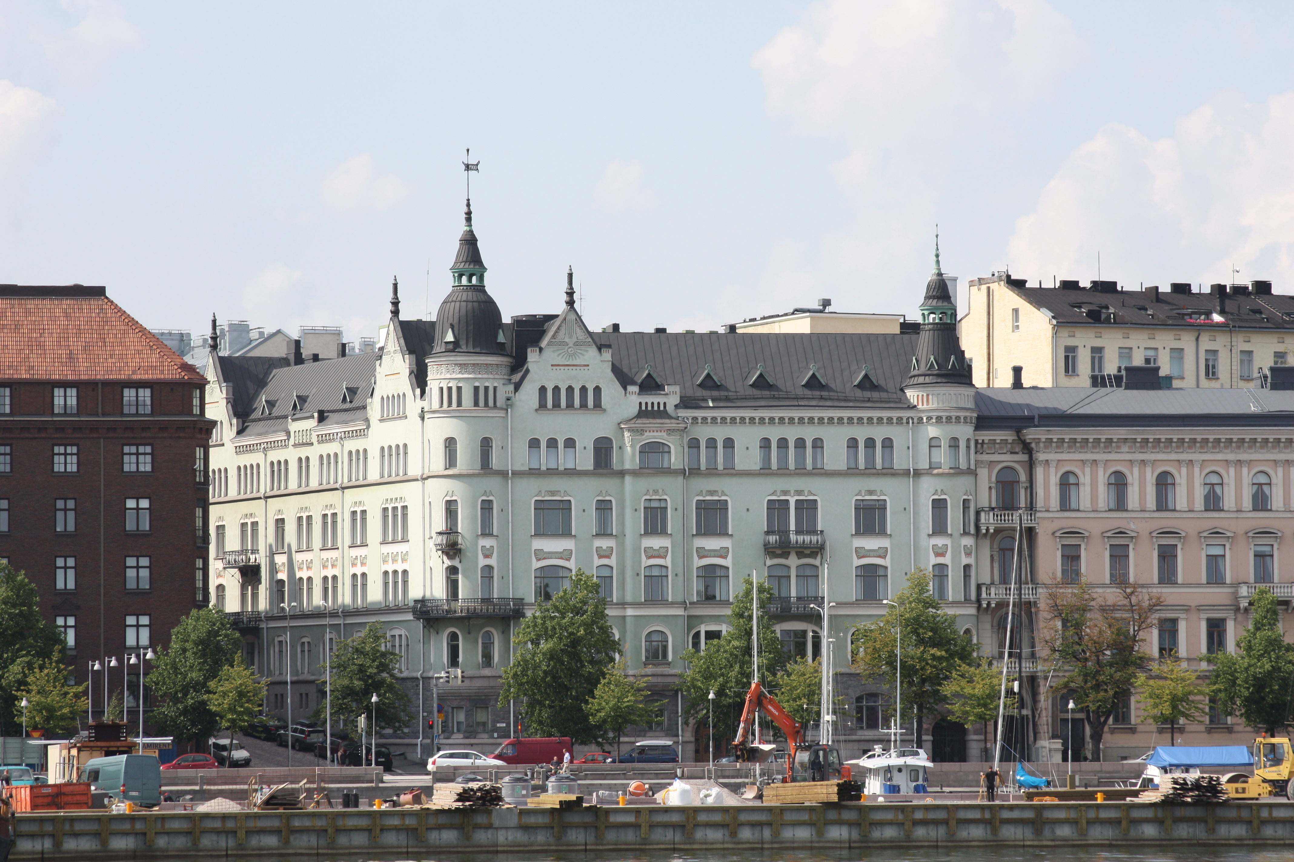 Pohjoisranta 10, Kruununhaka, Helsinki, Finland. Completed in 1910. Architects: Lars Sonck and Onni Tarjanne.